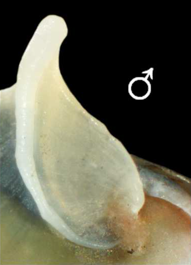 Photo of a detail of a rib shield of an inner side of an operculum of male of Thedoxus fluviatilis.